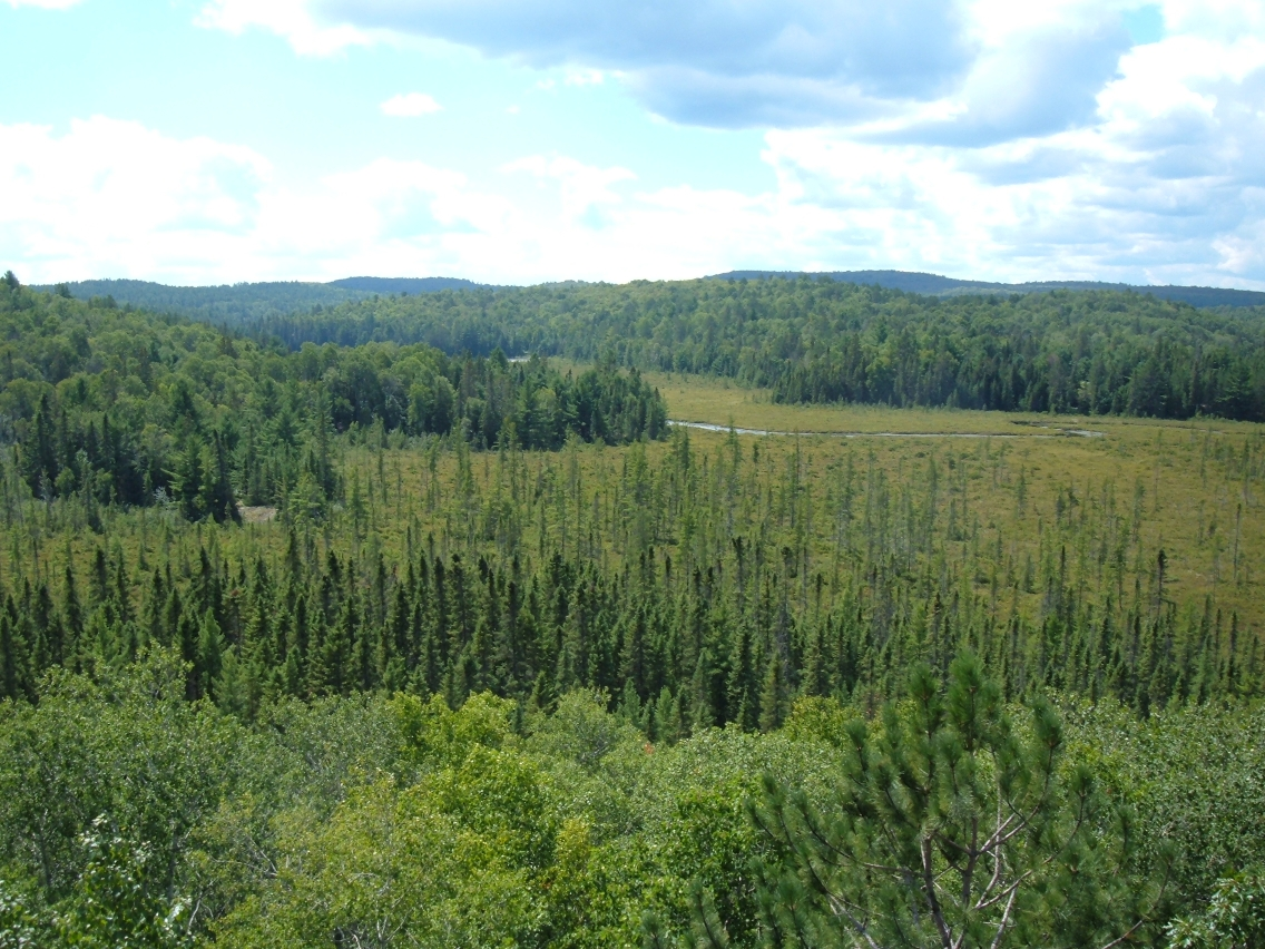 A lookout at Algonquin Provincial Park, Ontario, Canada.